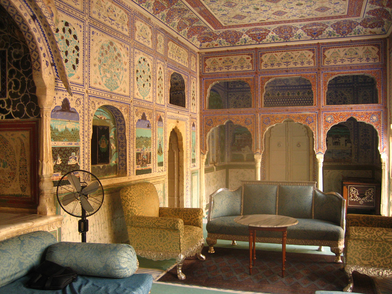 Lounge room of the Samode Palace.